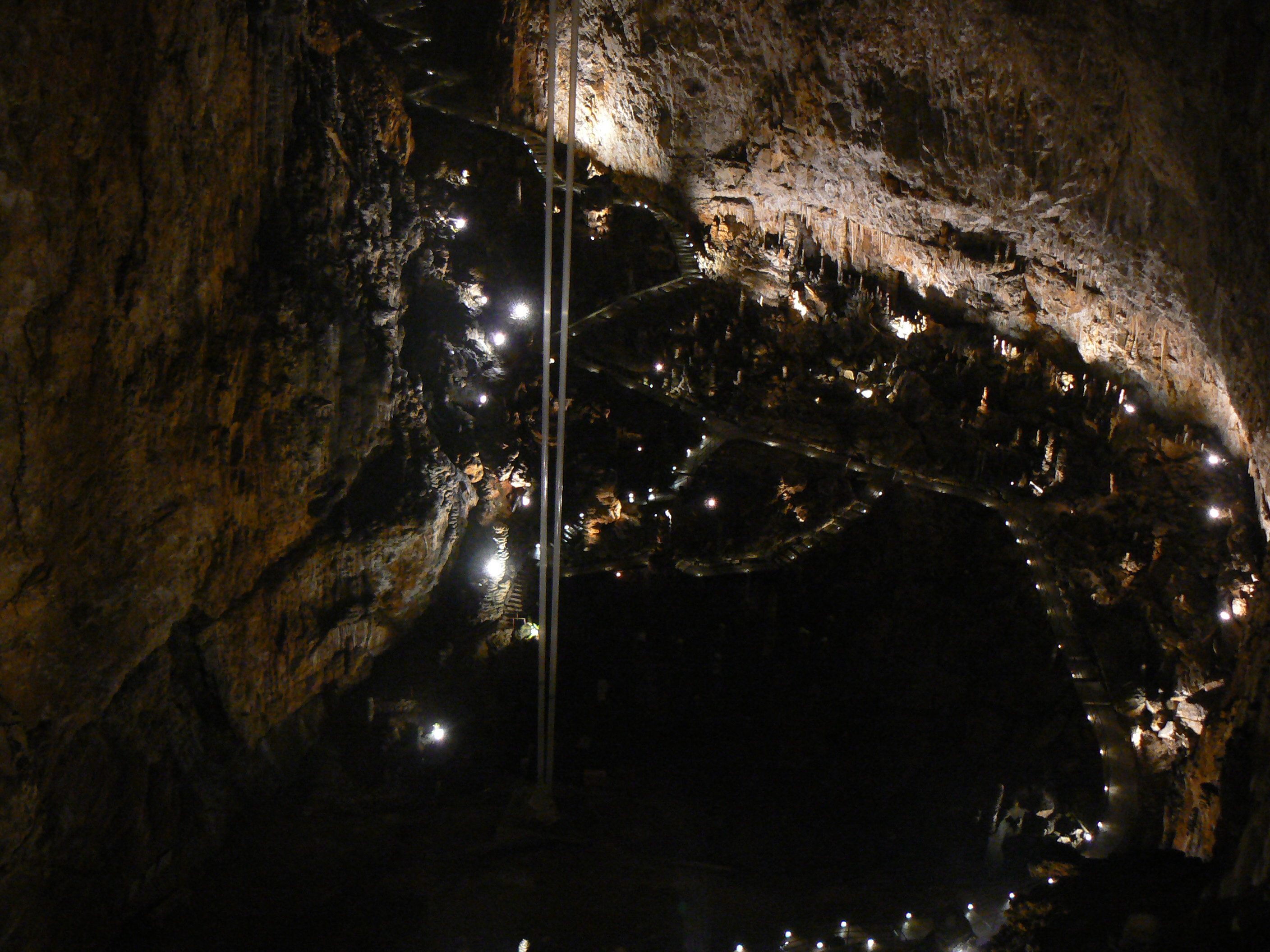 This is a view of the main chamber of Grotta Gigante near the end of the guided route, after going up long stairs. The two vertical plastic tubes are surrounding one very long pendulum each one for scientific purposes.